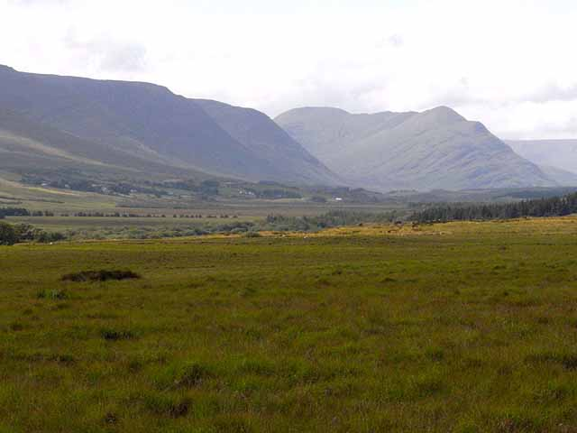 Partry Mountains Looking down the Derrycraff valley from the mountain road between Westport and Tourmakeady.